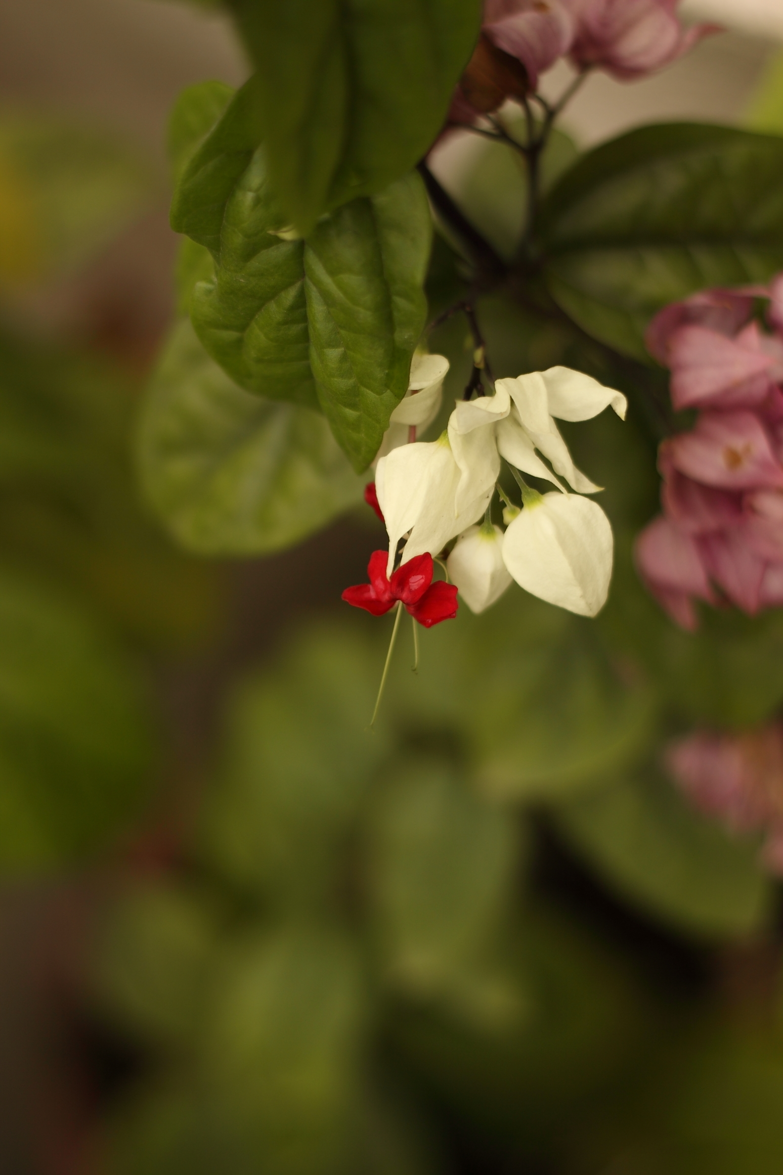 Common Name: Bleeding Heart Botanical Name: CLERODENDRUM THOMSONIAE Grown By: Aparna Davidson